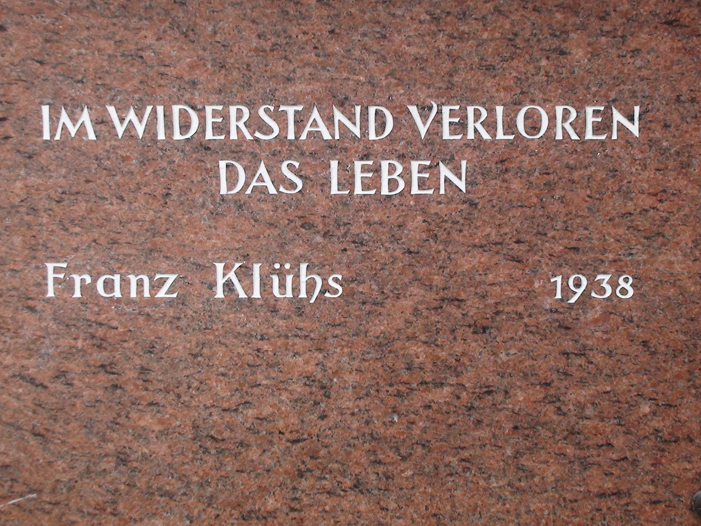 Tribute to Franz Klühs at the entrance to the "Heidefriedhof" cemetery in Berlin-Mariendorf